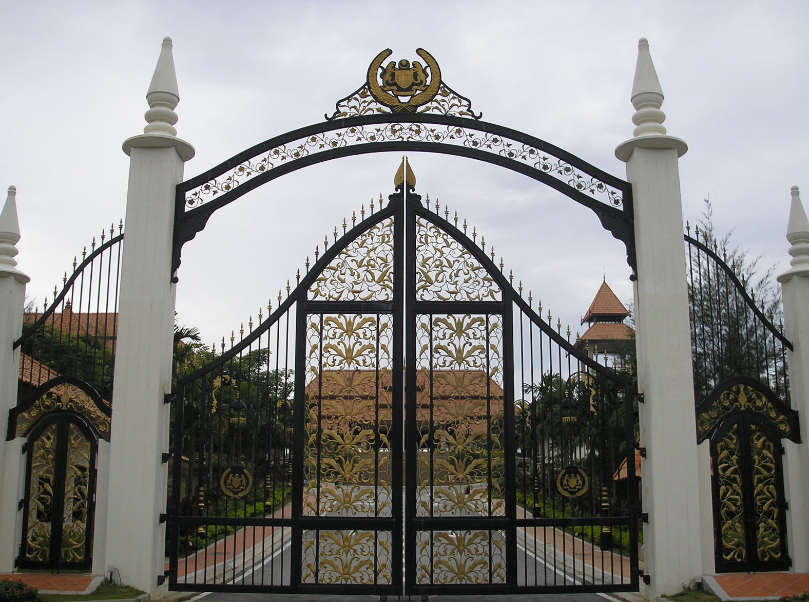 The Istana Melawati in Putrajaya, residence of the King of Malaysia.